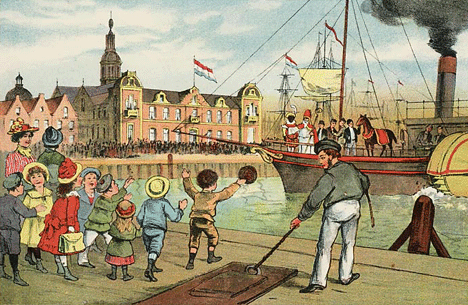 Saint Nicholas and Black Pete (1905). Sinterklaas en Zwarte Piet arrive with a steamboat. The rhyme says: the children see the boat arriving, Black Pete is laughing to them, the horse is also on the deck. Original text of the Saint Nicholas-song 'Zie, ginds komt de stoomboot'. llustration from: Jan Schenkman, St. Nikolaas en zijn knecht (Amsterdam, 1905). Picture with the rhyme 'Aankomst van St. Nikolaas' (p. 2). Source: DBNL .